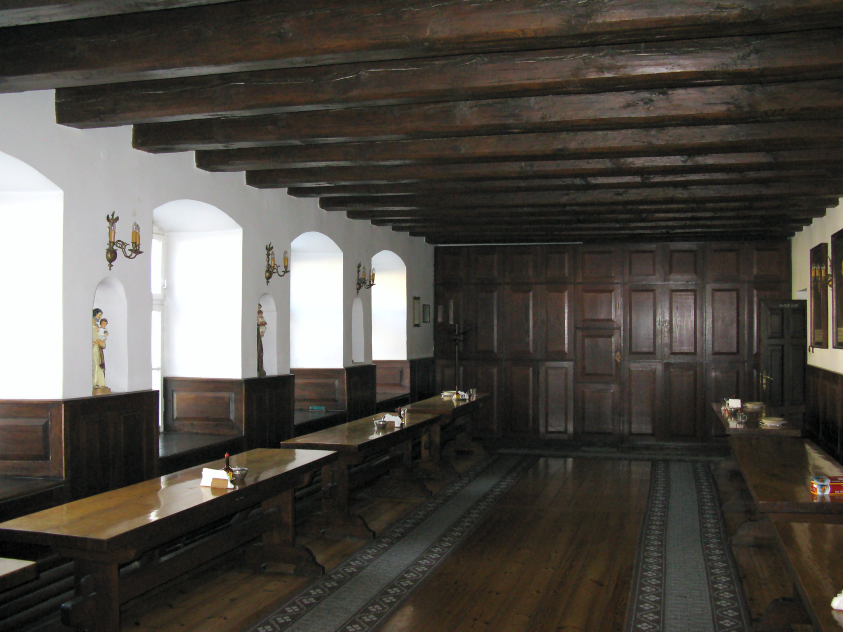 Refectory of Franciscan cloister in Zakroczym, place of last Polish Sejm during November Uprising